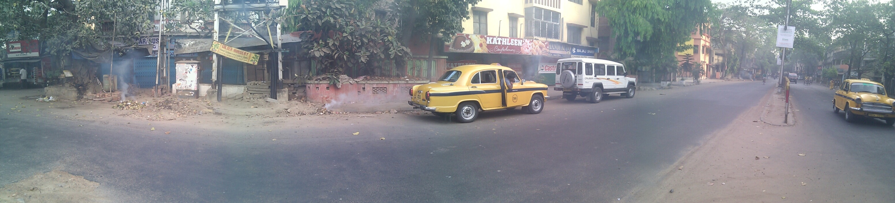 Trash Burning in Kolkata Streets panorama